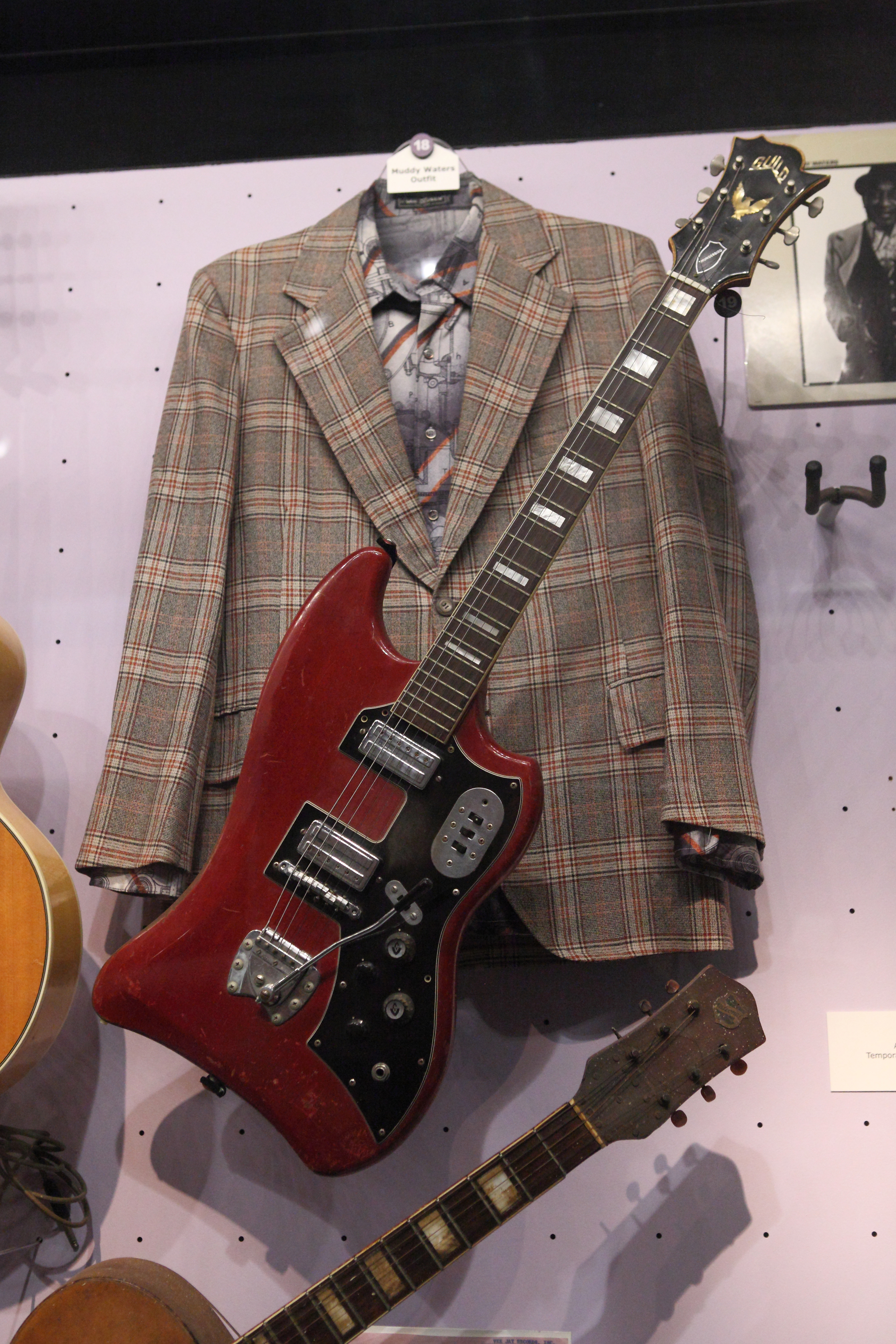 Muddy Waters' outfit and guitar at the Rock and Roll Hall of Fame in Cleveland, Ohio. Flickr Tags: ohio outfit clothing guitar cleveland jacket muddywaters rockandrollhalloffame theblues. Flickr Tags: Rock and Roll Hall of Fame Cleveland Ohio. from Flickr album "Rock and Roll Hall of Fame" by Sam Howzit